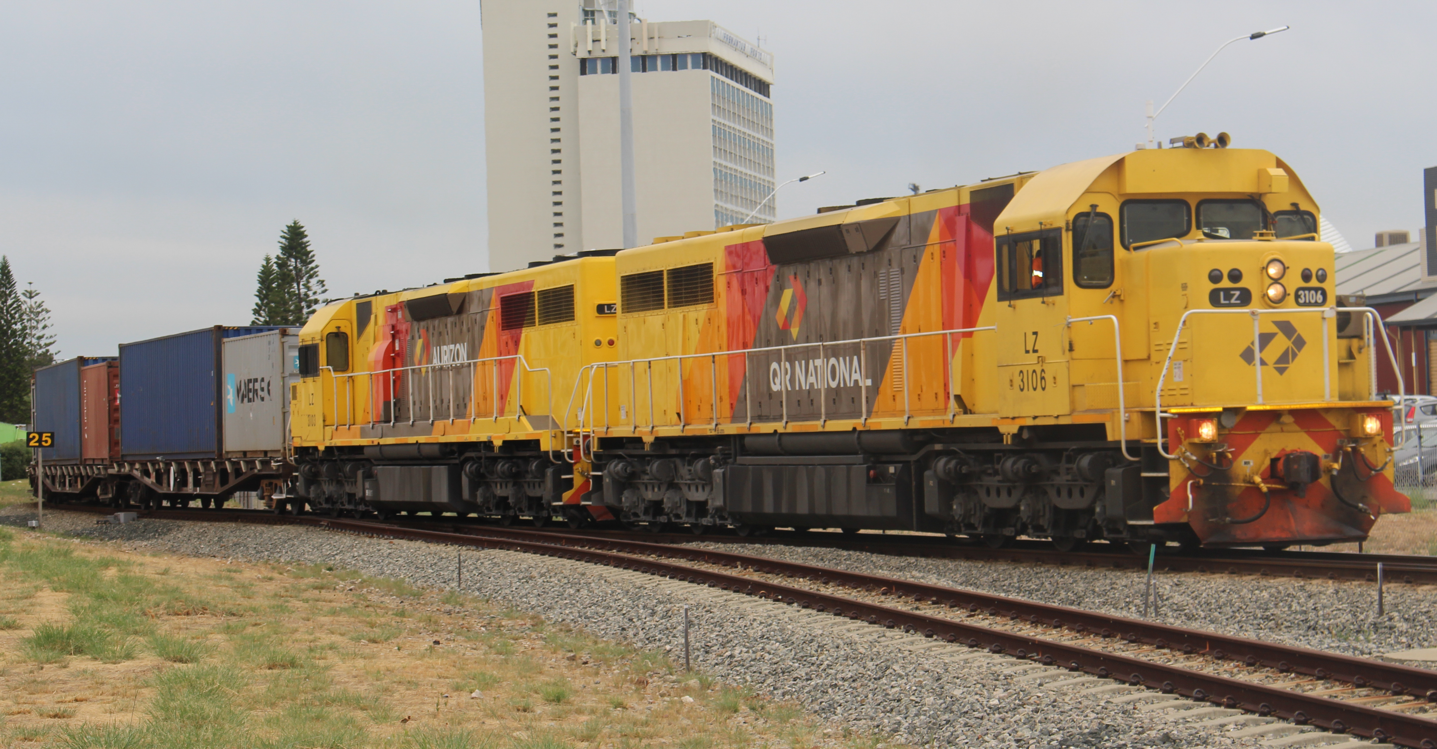 WAGR L class LZ3106 and LZ3103 in QRNational "Pineapple" scheme. The LZ Series was introduced in 1967 and their top speed is 115km/h